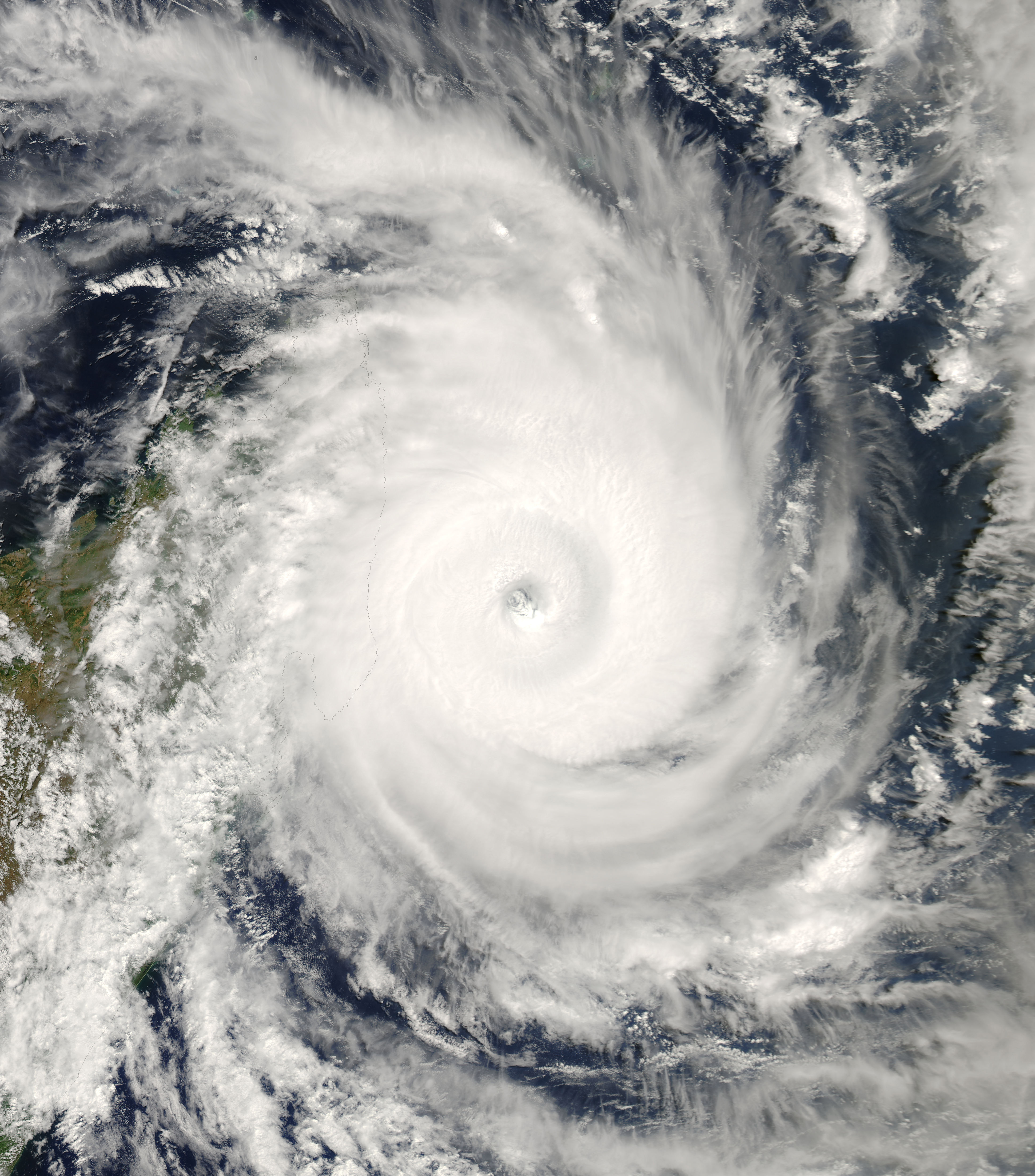 On March 14, 2007, storm-weary Madagascar braced for its fourth land-falling tropical cyclone in as many months. Cyclone Indlala was hovering off the island’s northeast coast when the Moderate Resolution Imaging Spectroradiometer (MODIS) on NASA’s Aqua satellite captured this photo-like image at 1:40 p.m. local time (10:40 UTC). Just over a hundred kilometers offshore, the partially cloudy eye at the heart of the storm seems like a vast drain sucking in a disk of swirling clouds. According to reports from the Joint Typhoon Warning Center issued less than three hours after MODIS captured this image, Indlala had winds of 115 knots (132 miles per hour), with gusts up to 140 knots (161 mph). Wave heights were estimated to be 36 feet. At the time of the report, the storm was predicted to intensify through the subsequent 12-hour period, to turn slightly southwest, and to strike eastern Madagascar as a Category 4 storm with sustained winds up to 125 knots (144 mph), and gusts up to 150 knots (173 mph). According to Reuters AlertNet news service, Madagascar’s emergency response resources were taxed to their limit in early March 2007 as a result of extensive flooding in the North, drought and food shortages in the South, and three previous hits from cyclones in the preceding few months: Bondo in December 2006, Clovis in January 2007, and Gamede in February.